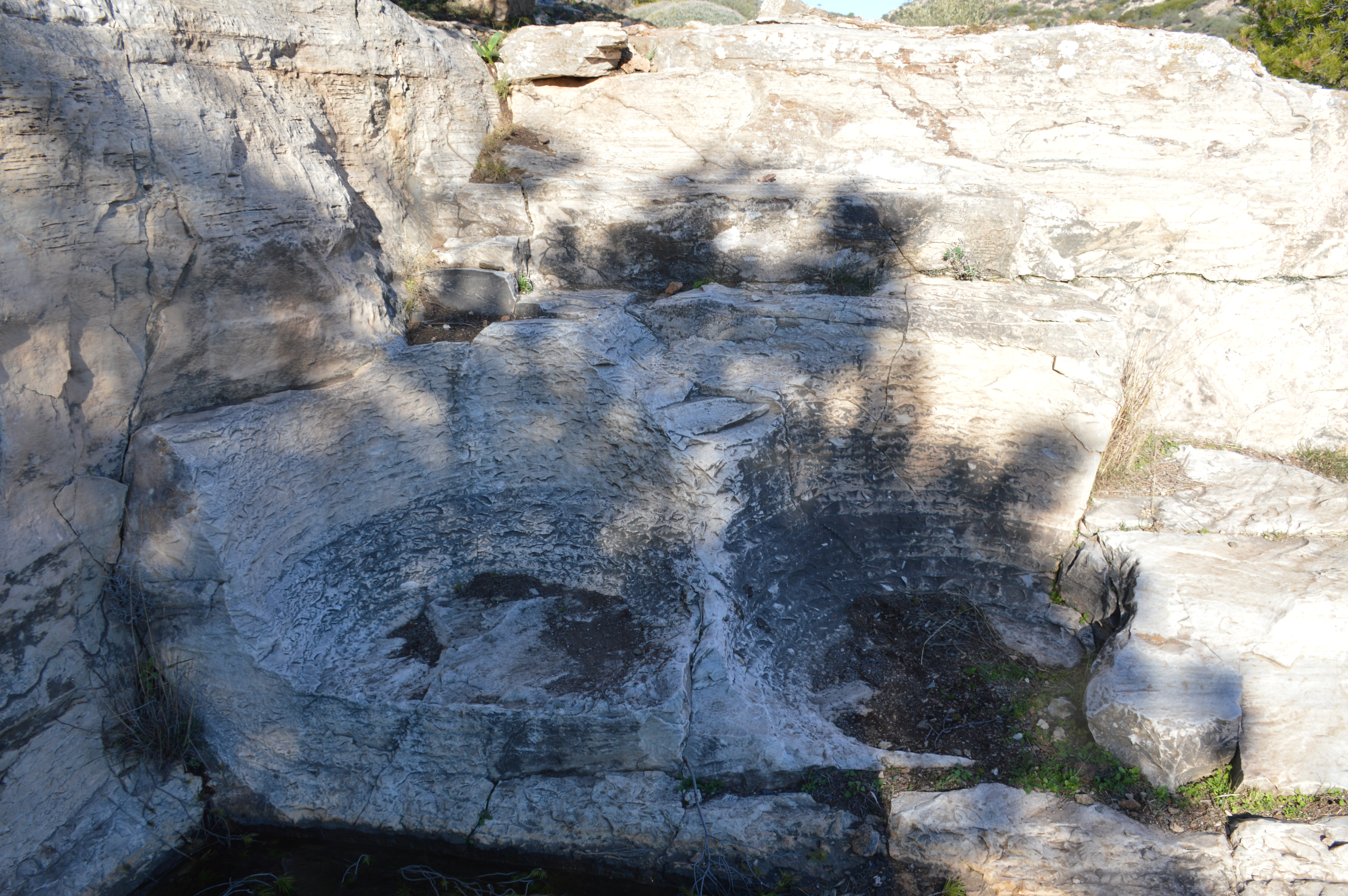 Agrileza Lavrion ancient quarry from where the marbles for temple of Poseidon Sounion have come